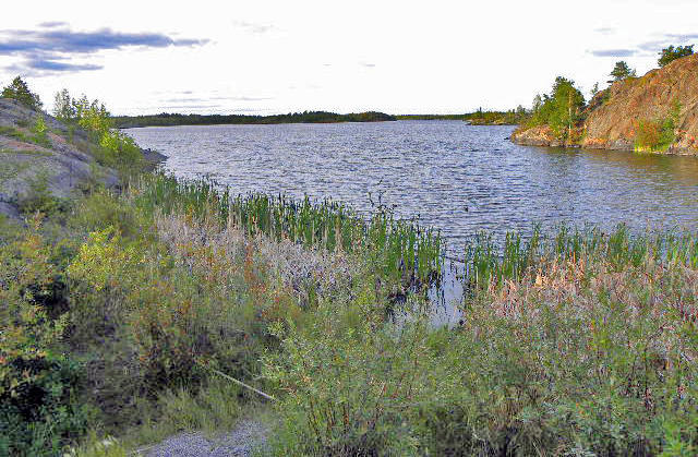 View of Frame Lake in Yellowknife, NT, Canada, showing both the bare bedrock that predominates on its shoreline and some of the weedier bays that have developed.